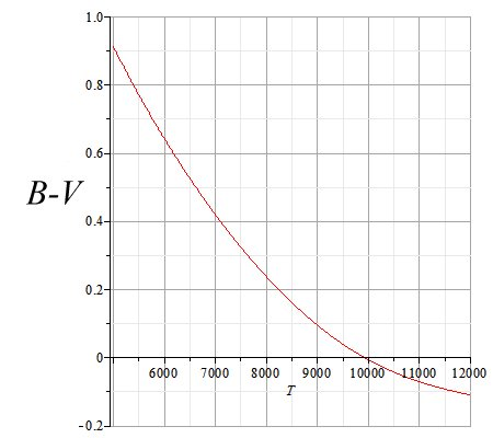 Color index B-V